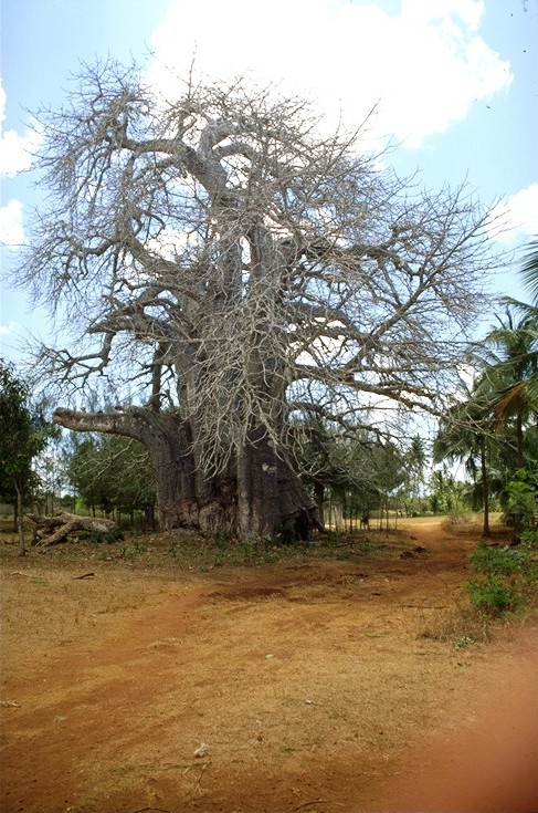 Baobabs of Zanzibar - Tanzania - 1996